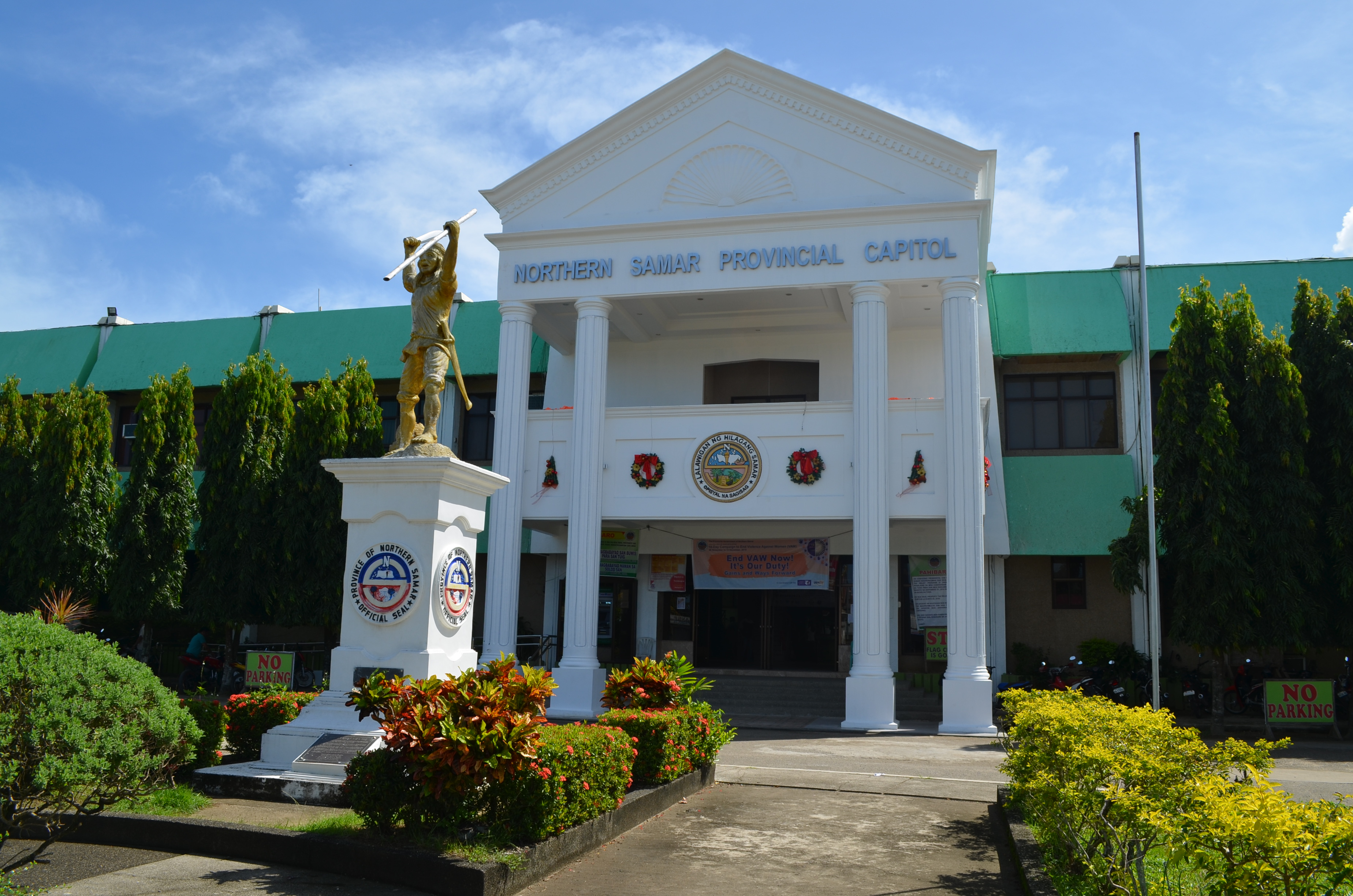 Taken during the December 2015 Sinirangan Bisaya Wikimedia Community activities in Eastern Visayas